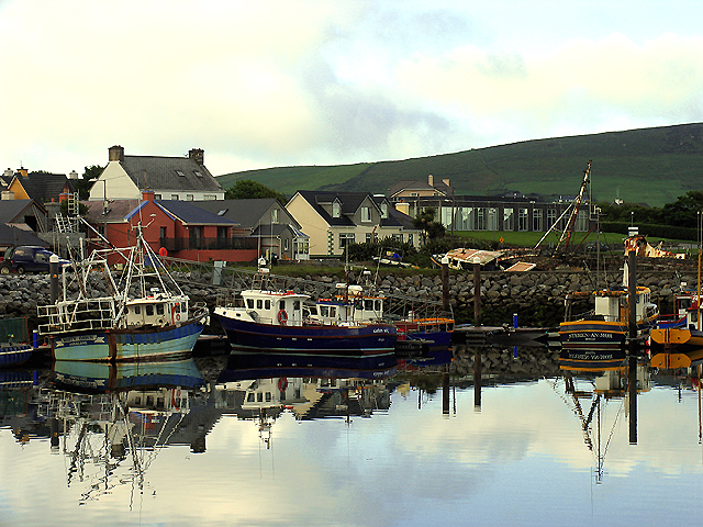 Dingle harbour, County Kerry, Ireland